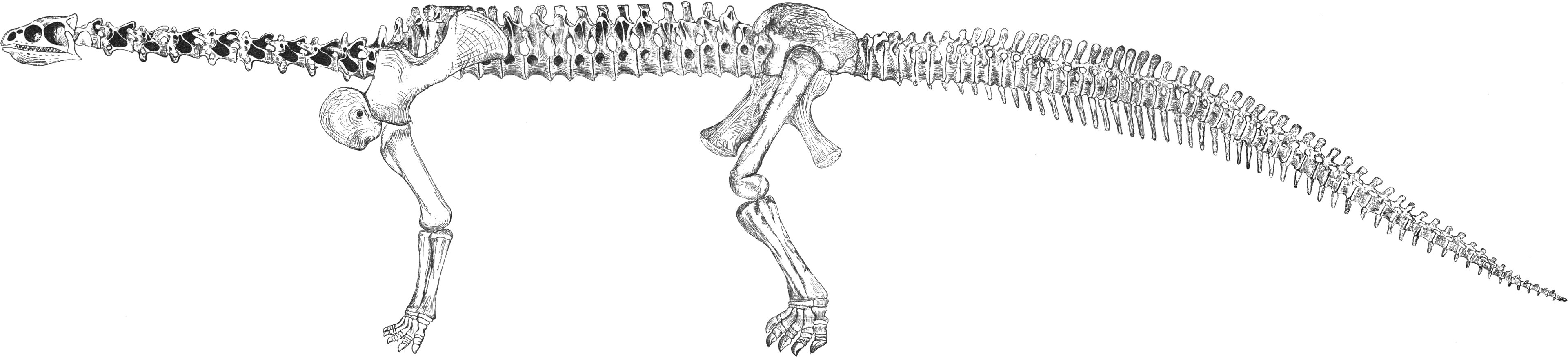 The earliest known skeletal reconstruction of a sauropod dinosaur: Camarasaurus supremus by John A. Ryder, 1877. First displayed at the December 21, 1877 meeting of The American Philosophical Society in Philadelphia, Pennsylvania. First published in Mook (1914) as a reduced figure. Later reproduced as a larger figure in Osborn and Mook (1921: plate LXXXII) (the later version is reproduced here).